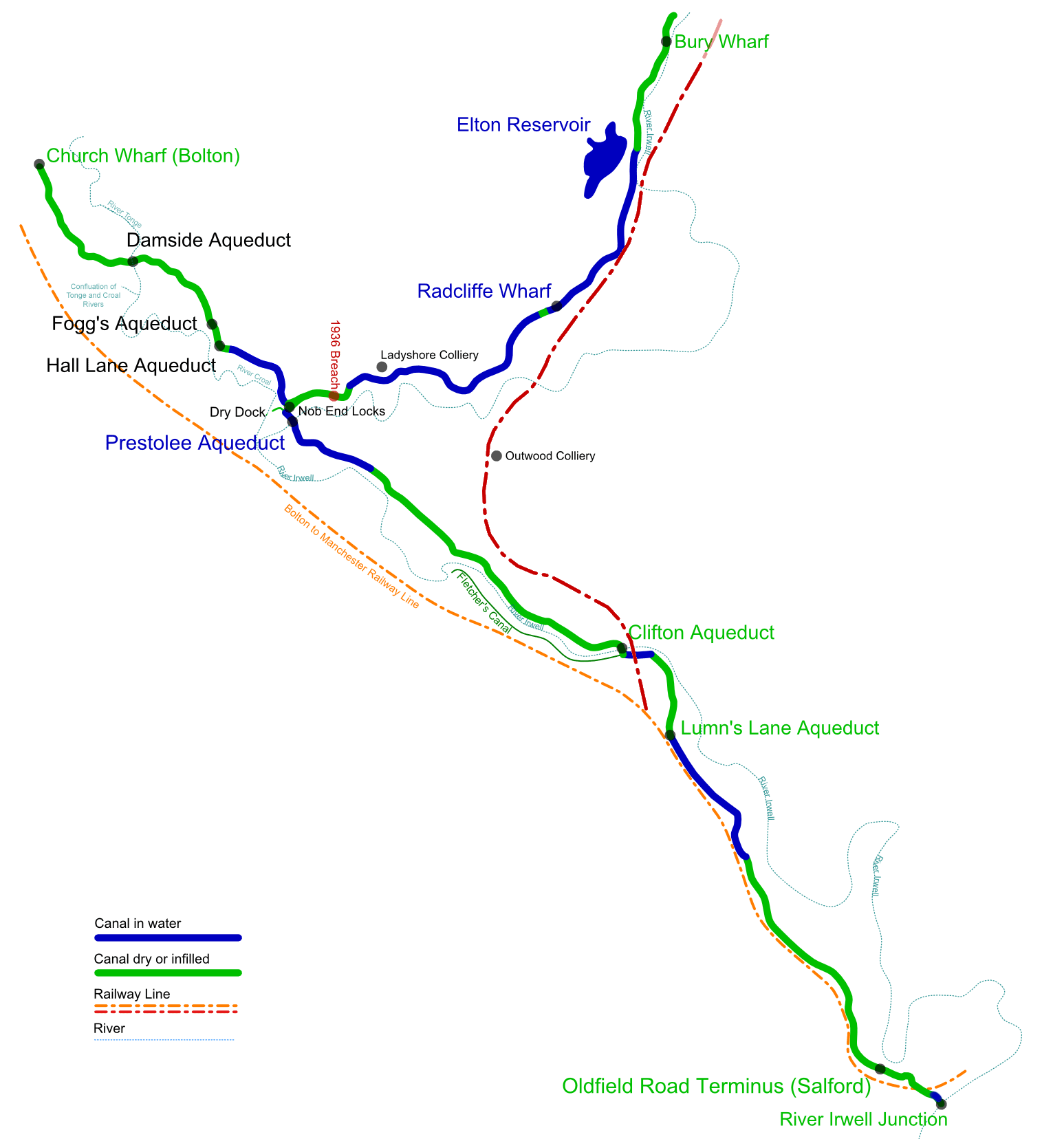 A map of the Manchester Bolton & Bury Canal, complete with the Bolton to Manchester Railway Line, and the later East Lancs Railway Line from Clifton Junction